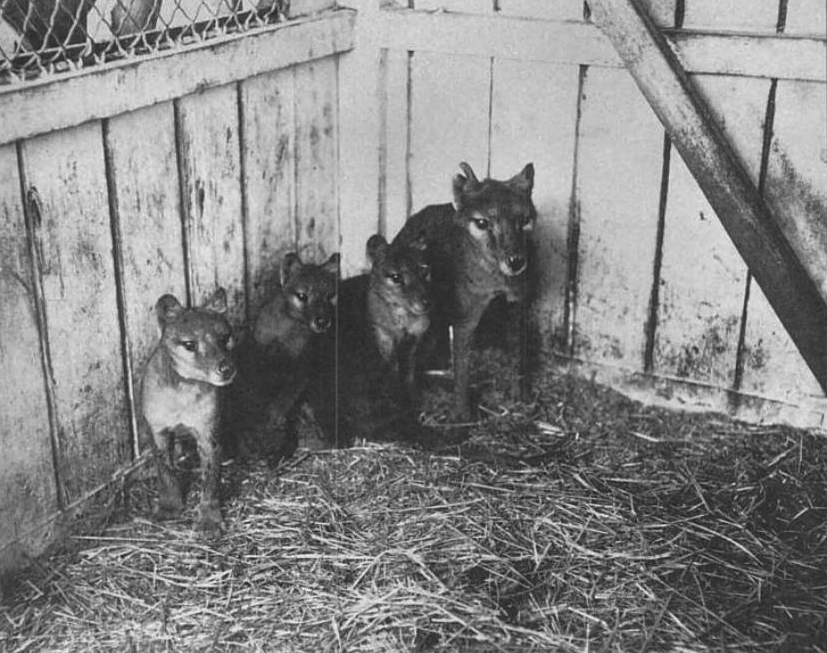 Thylacine with three cubs, Hobart Zoo, 1909.